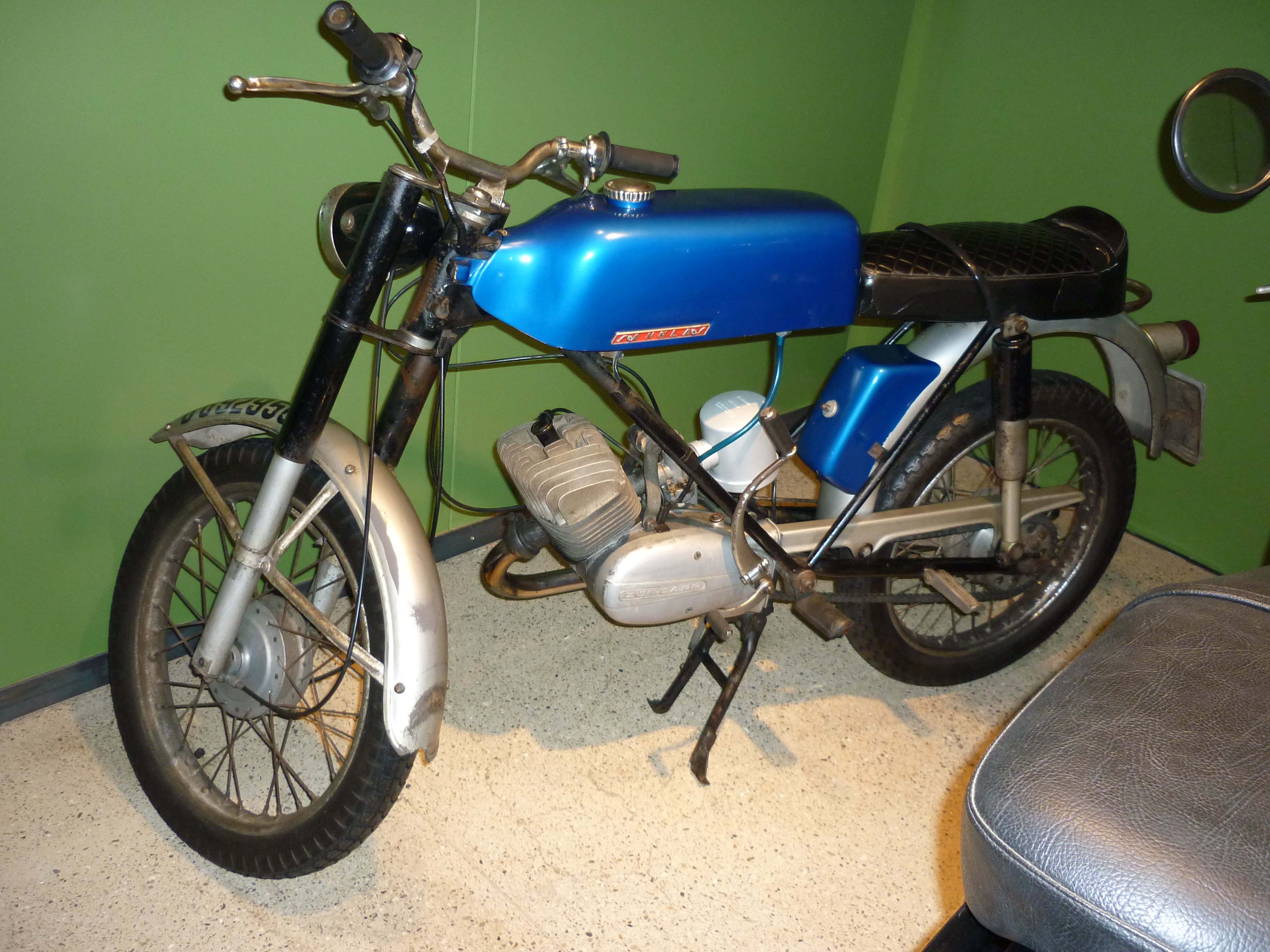 Sanglas Zündap 100cc (1968), with a Zündapp engine.Museu Industrial del Ter, Manlleu, Catalonia (9 to 21 november 2010)